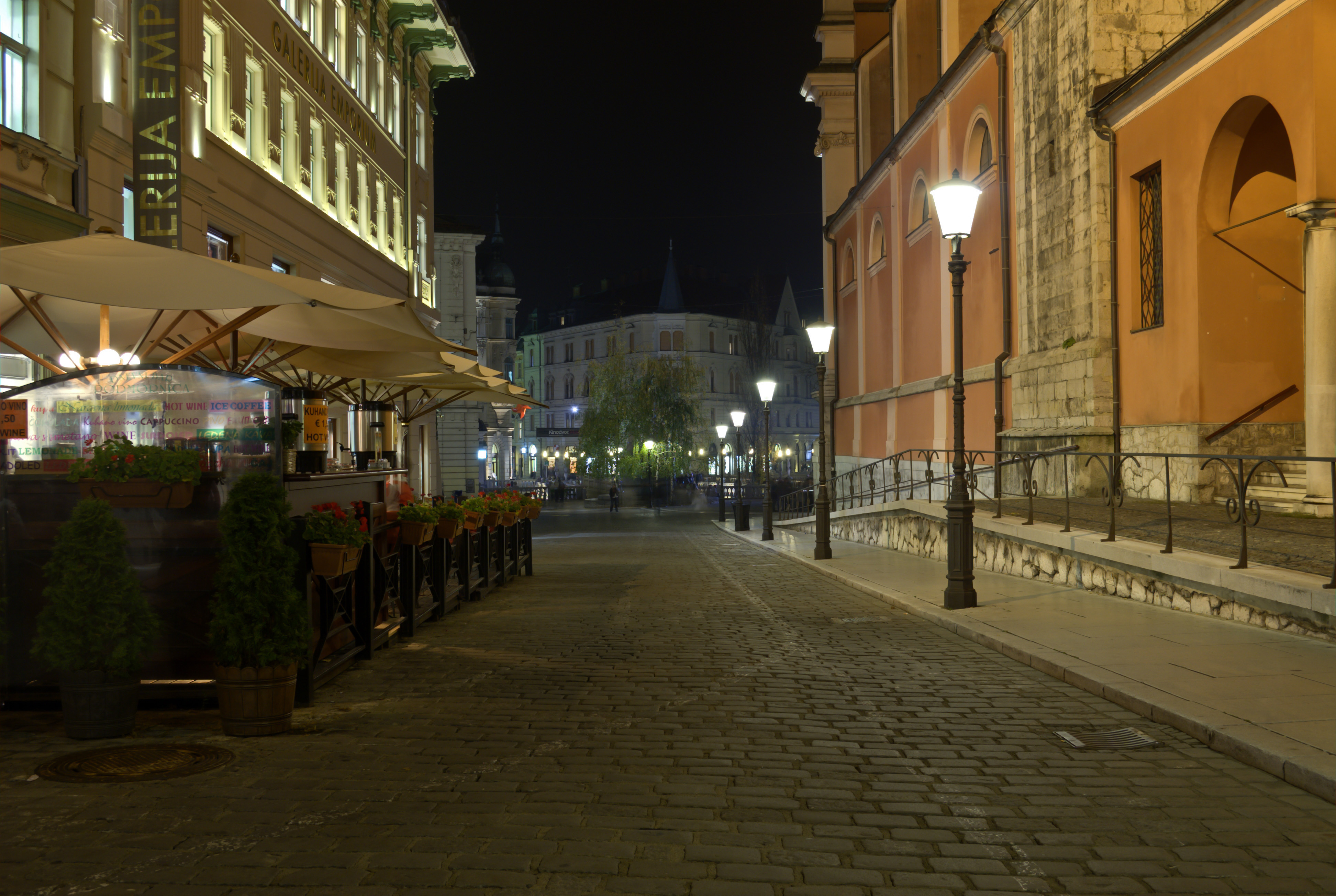 Miklošičeva Street in Ljubljana, wiew towards Prešern's square